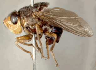 A female adult human bot fly (D. hominis).